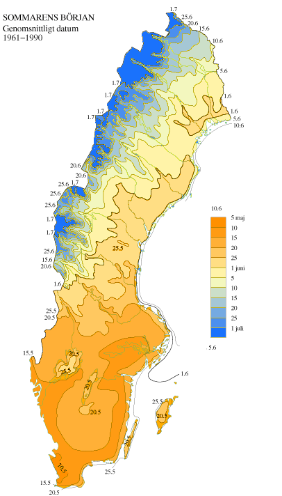 The average date (1961-1990) when summer begins in Sweden. Definition is 5 or more consectutive days with average temperatures above 10°C